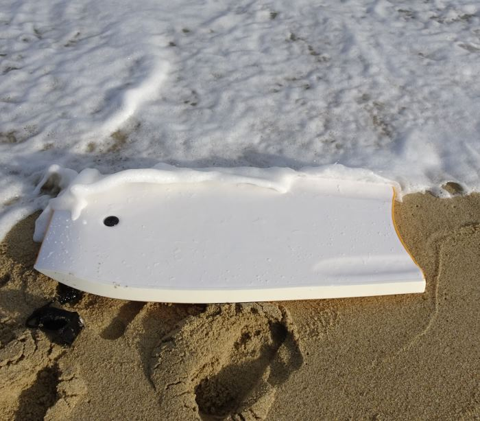 Bodyboard with channels